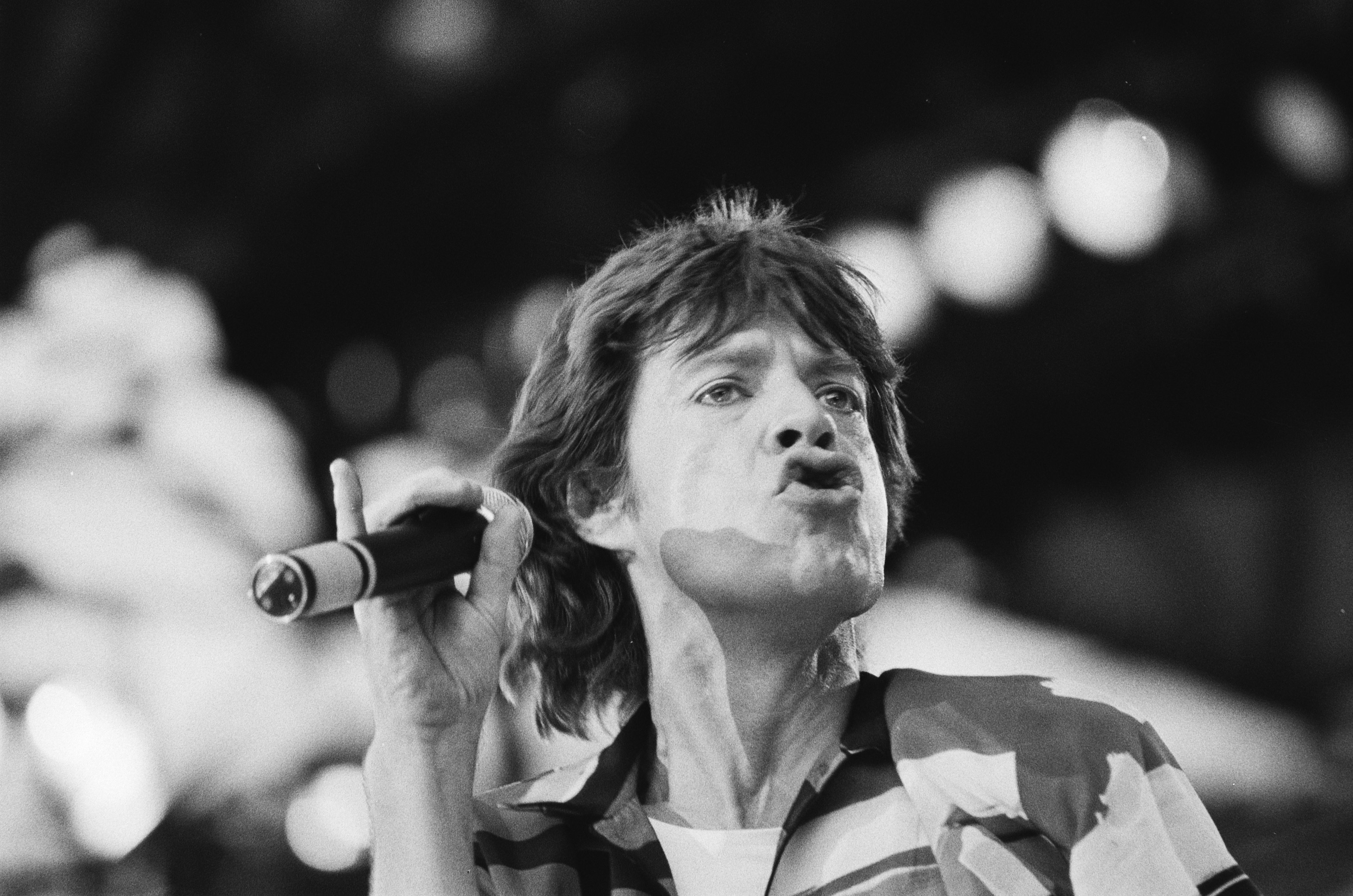 Rolling Stones in concert: Mick Jagger in De Kuip (Rotterdam NL), 2 June 1982. Photo by Marcel Antonisse (Anefo)